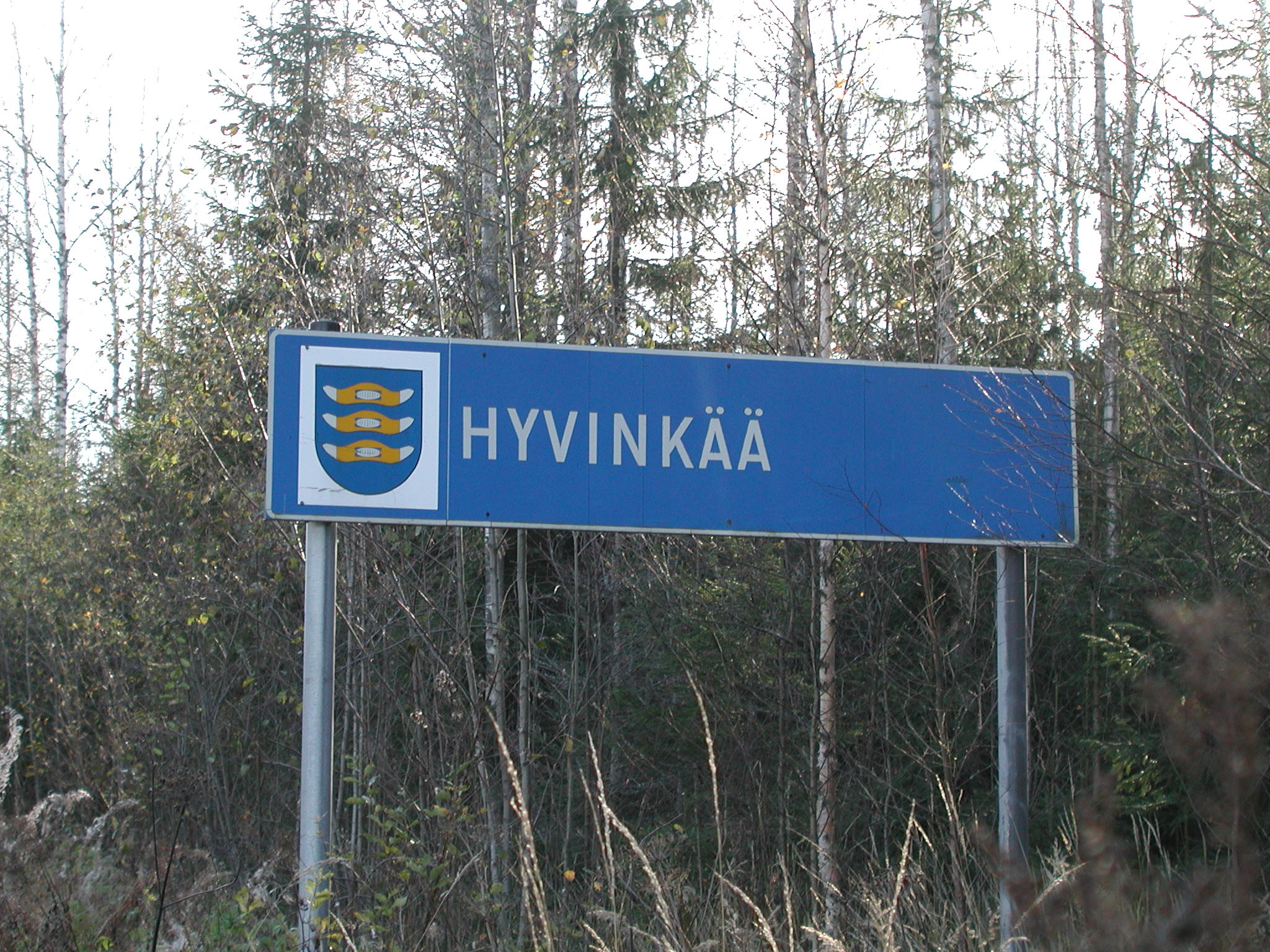 Municipal border sign of Hyvinkää, Finland